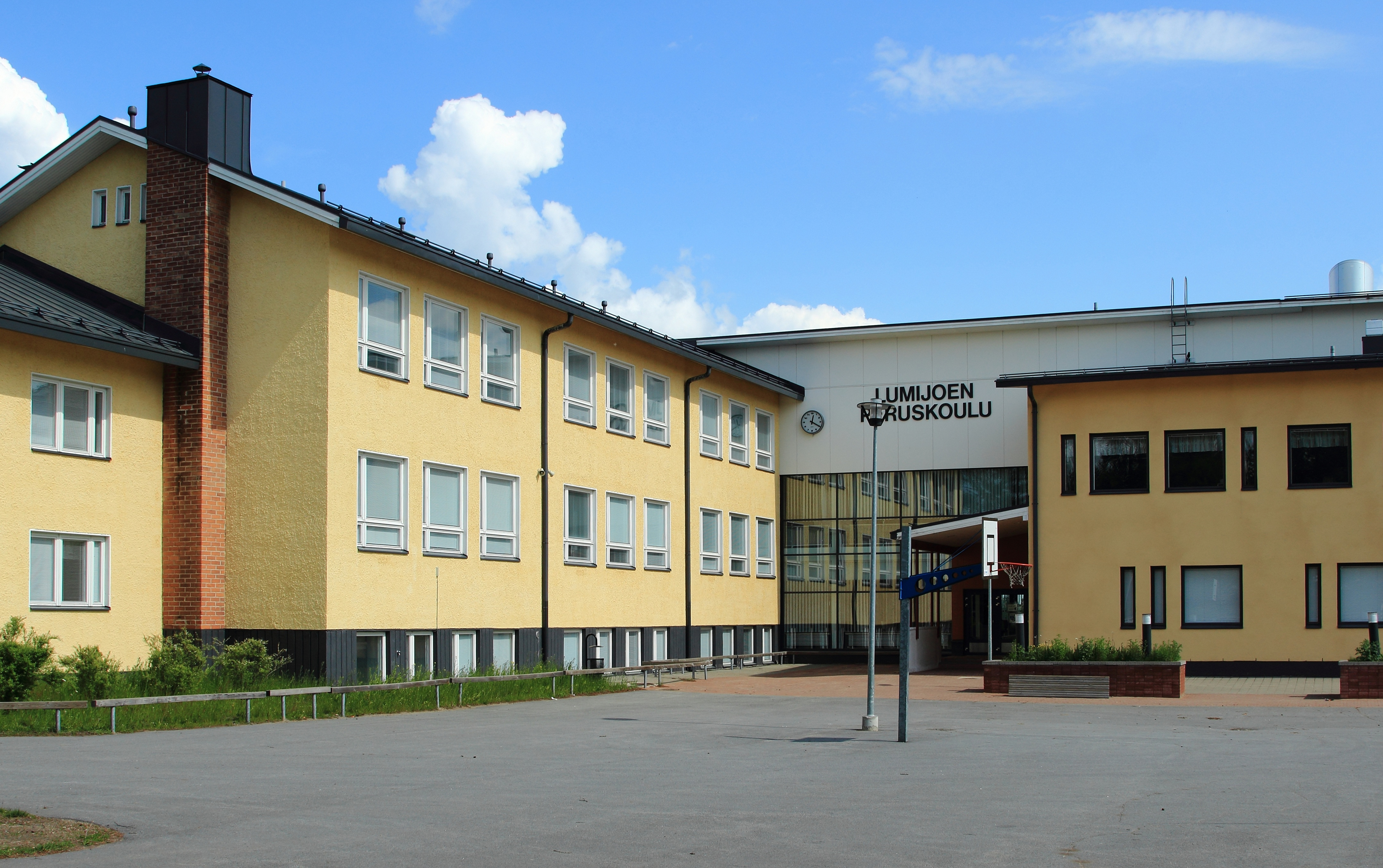 Lumijoki school in Lumijoki, Finland.